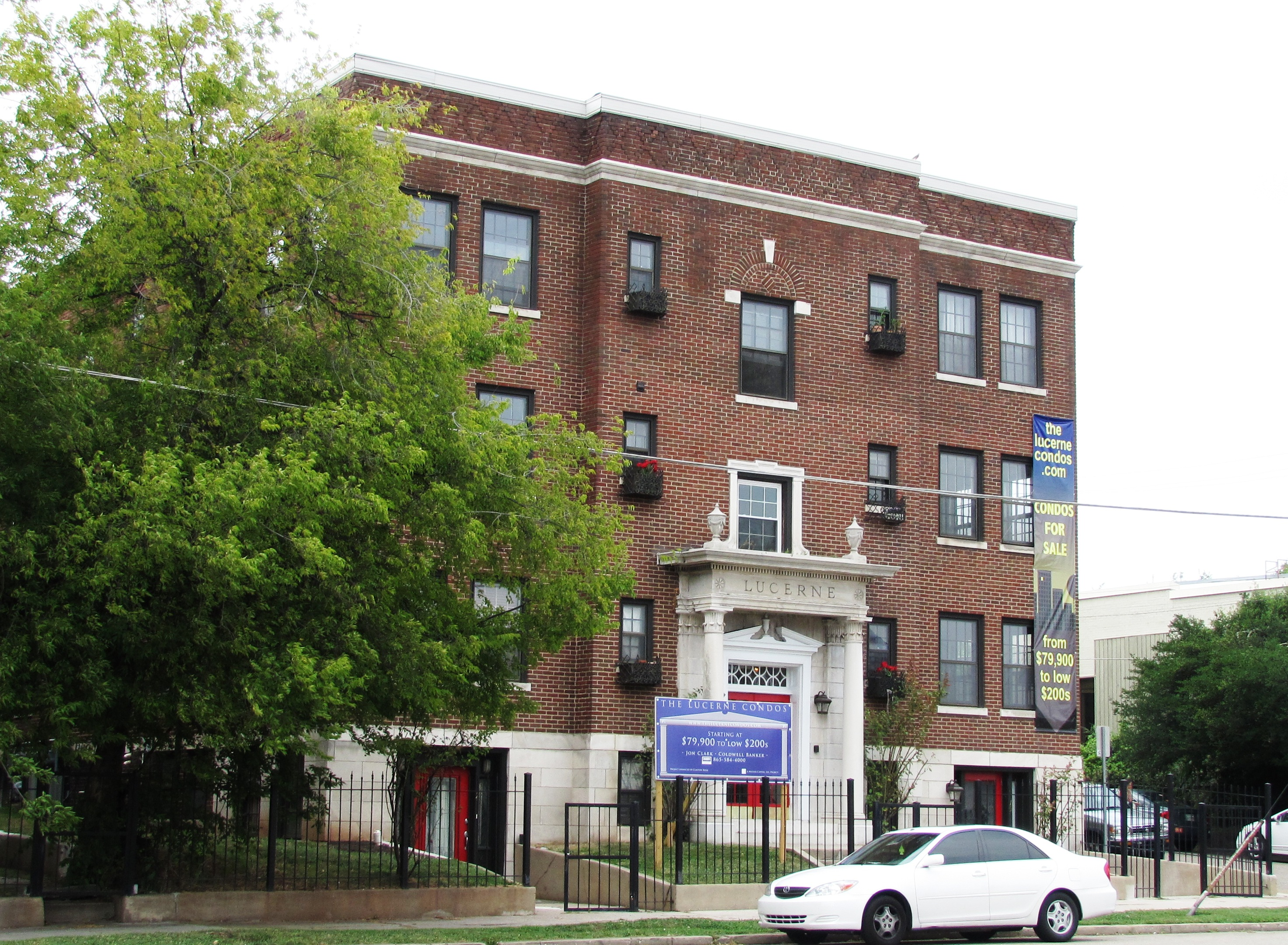 The Lucerne (201 West Fifth Avenue), an condominium in Knoxville, Tennessee, USA. Built around 1910, this building is now a contributing property within the NRHP-listed National Register of Historic Places.